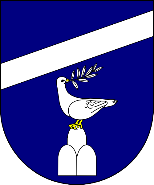 Coat of arms (shield only) of Pope Pius XII as Eugenio cardinal Pacelli, Cardinal Secretary of State (1930 - 1939)